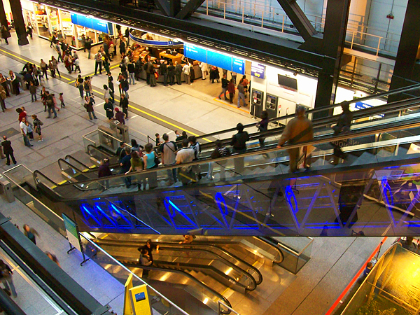 Main hall inside the Cite des Sciences in Paris.